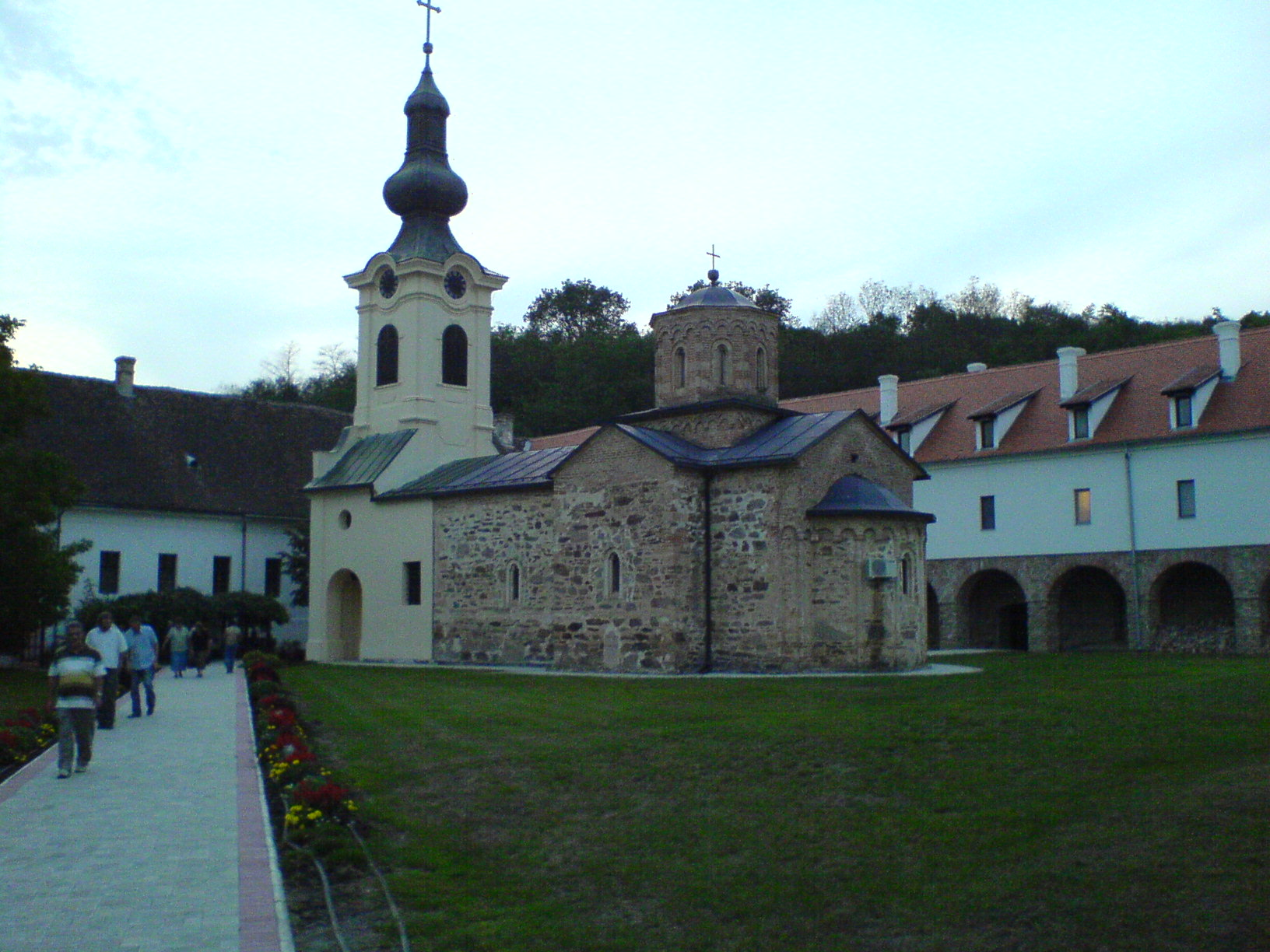 Mesić monastery, near Vršac, Vojvodina, Serbia